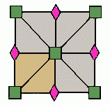 Cell diagram for wallpaper group type p4. Clipped version of Wallpapercellp4.gif.